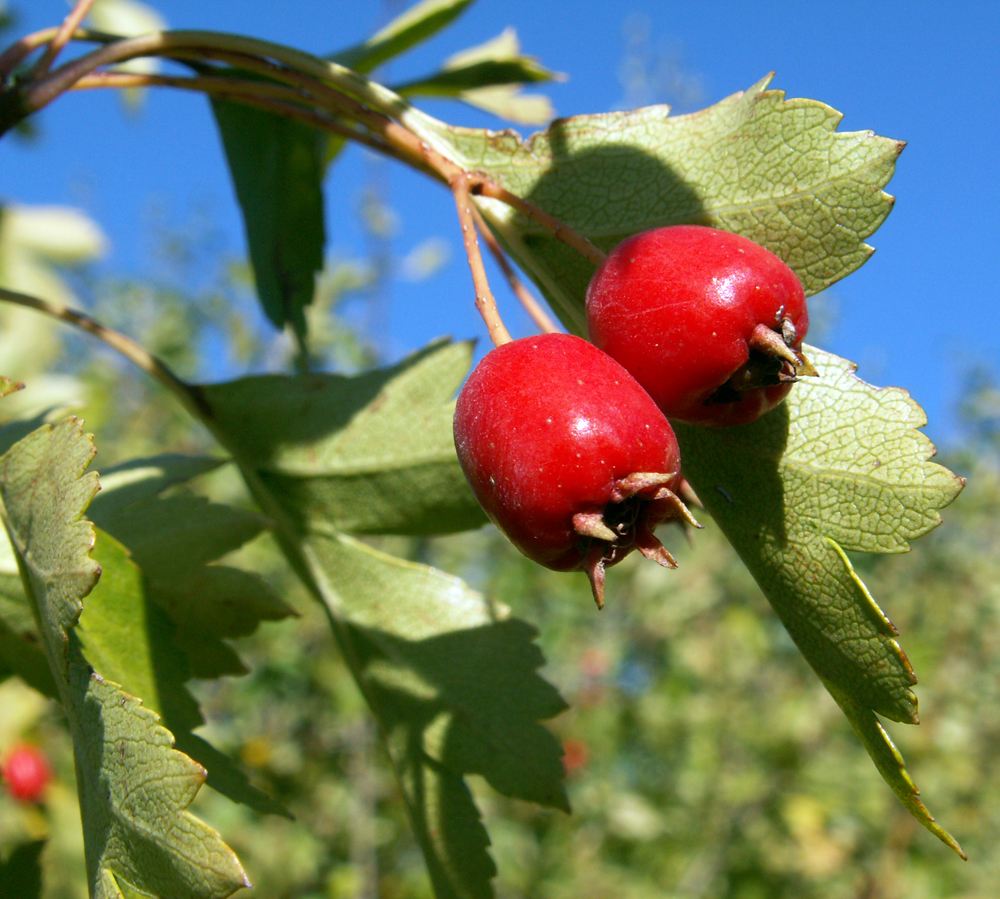 Howthorn Crataegus